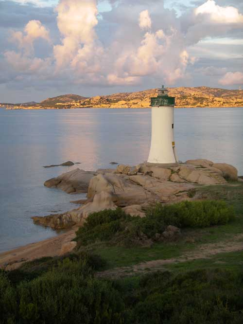 Looking across at I. San Stefano from Palau on an October evening.